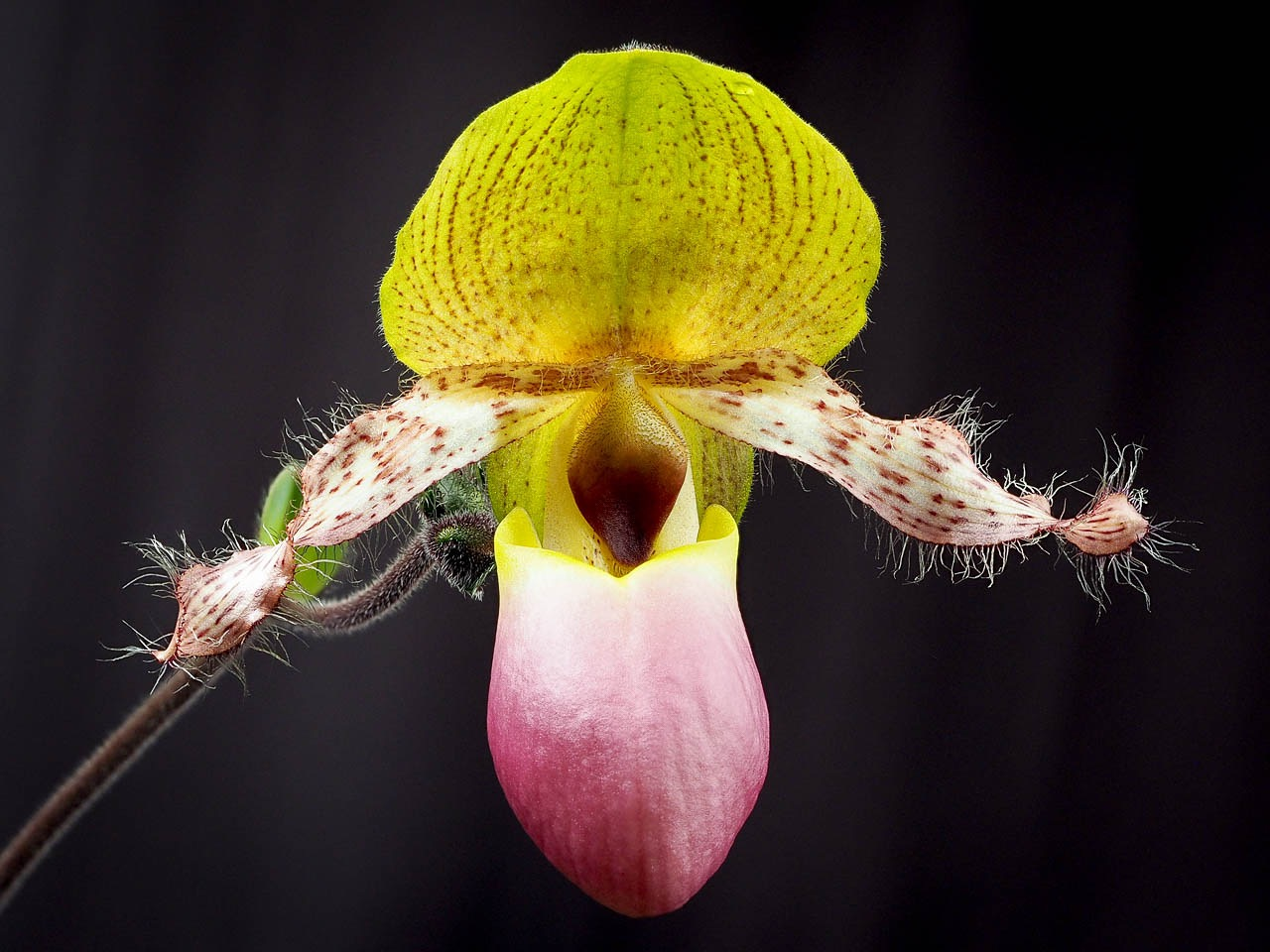 Paphiopedilum moquetteanum